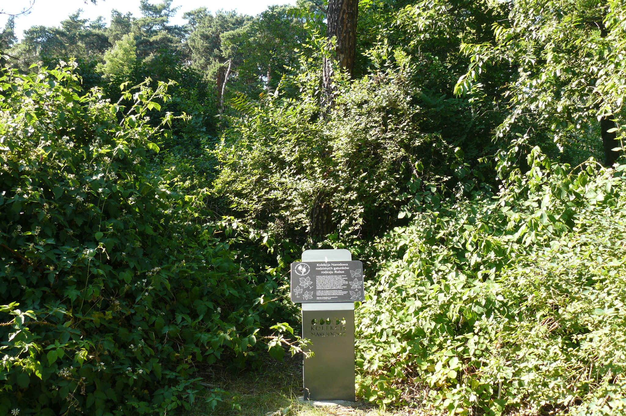 Dendrology Garden in Poznan. National Collection of Rubus.